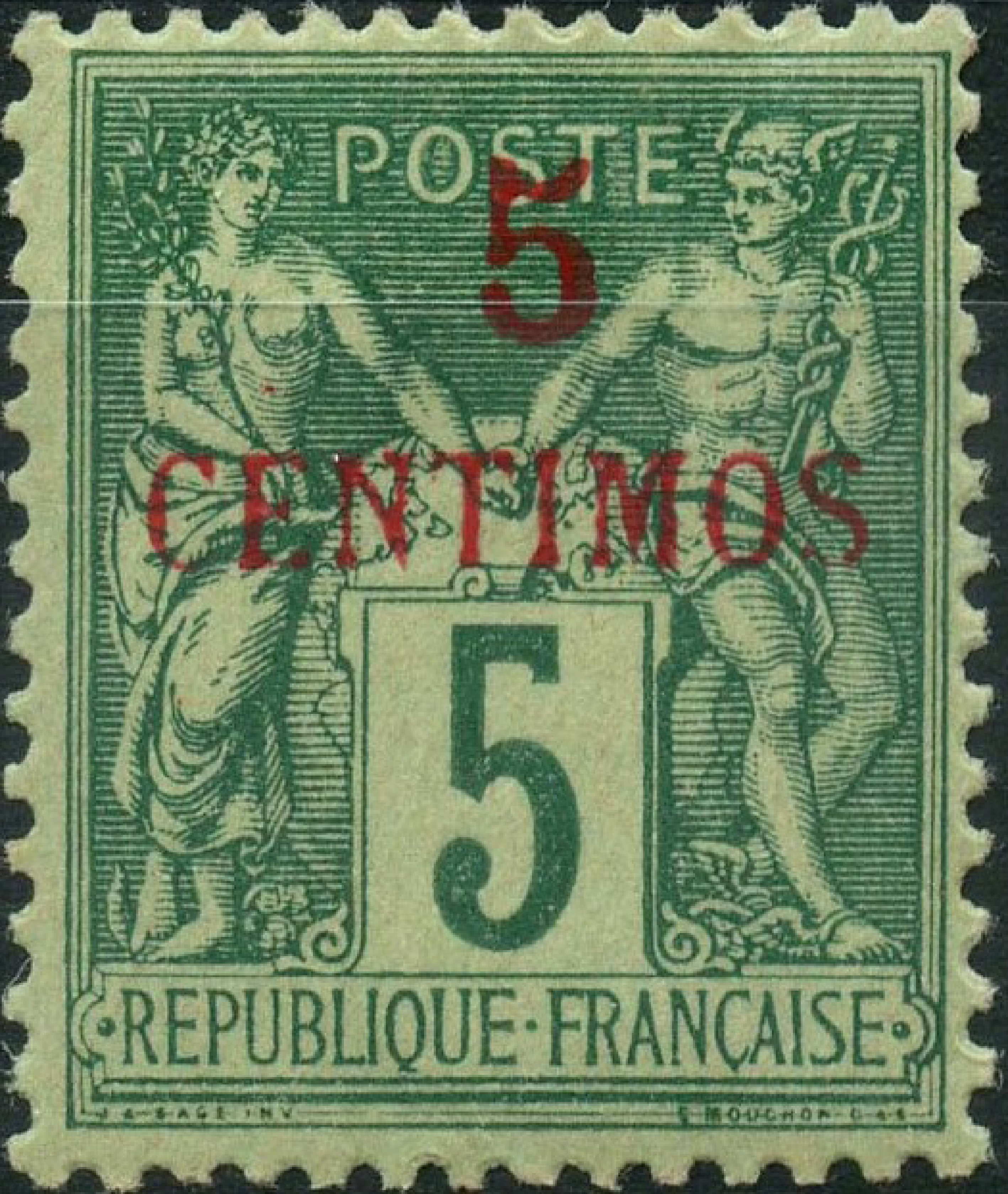 France Postal Agency In Morocco. Type Sage or Navigation and Commerce issue of 1891, 5 centime surcharged 5 centimos Catalogue: Yvert 1 Design: Jules Auguste Sage Engraver: Louis-Eugène Mouchon